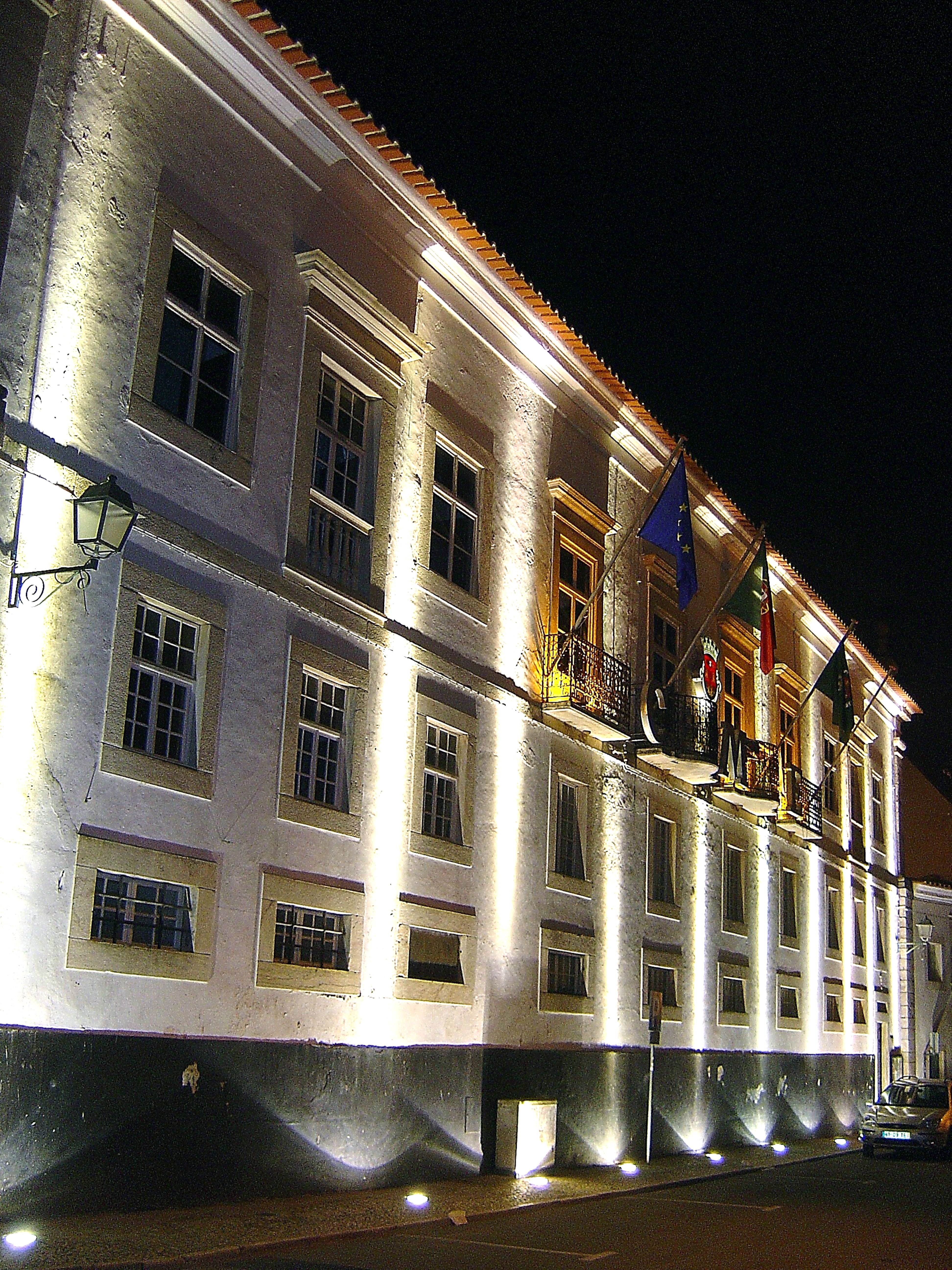 See where this picture was taken. [?]